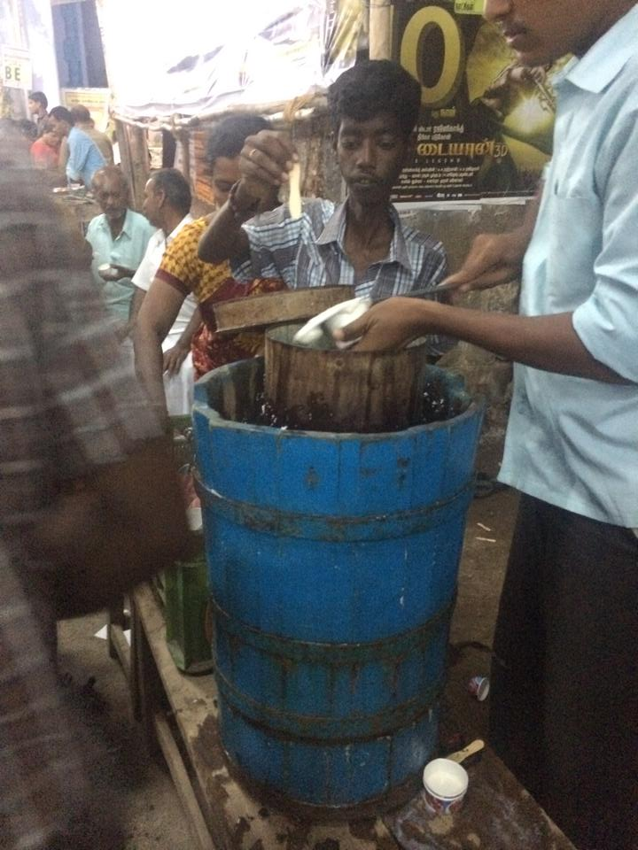 Its a famous Milk Ice around Tirumangalam.. They prepare during Vaigasi Festival time only.